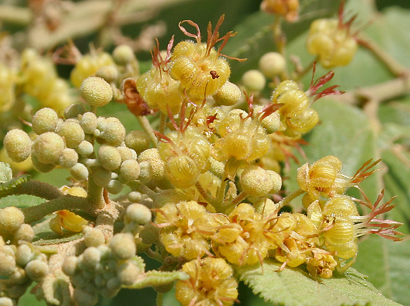 West india elm, Pigeon wood or Bay/ Bastard cedar Guazuma ulmifolia in Sanjeevaiah Park, Hyderabad, India.